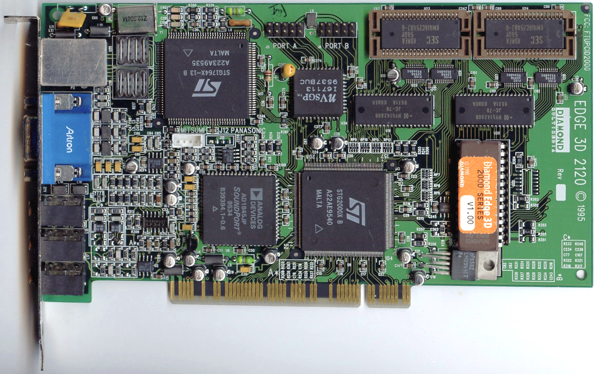 Diamond Multimedia's Edge 3D 2120 video card. Card scanned by me.